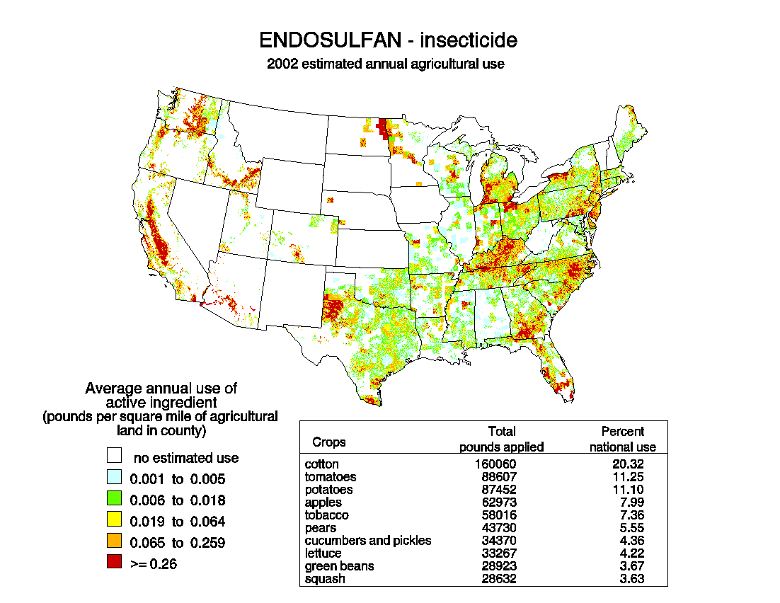 Endosulfan usage in the USA